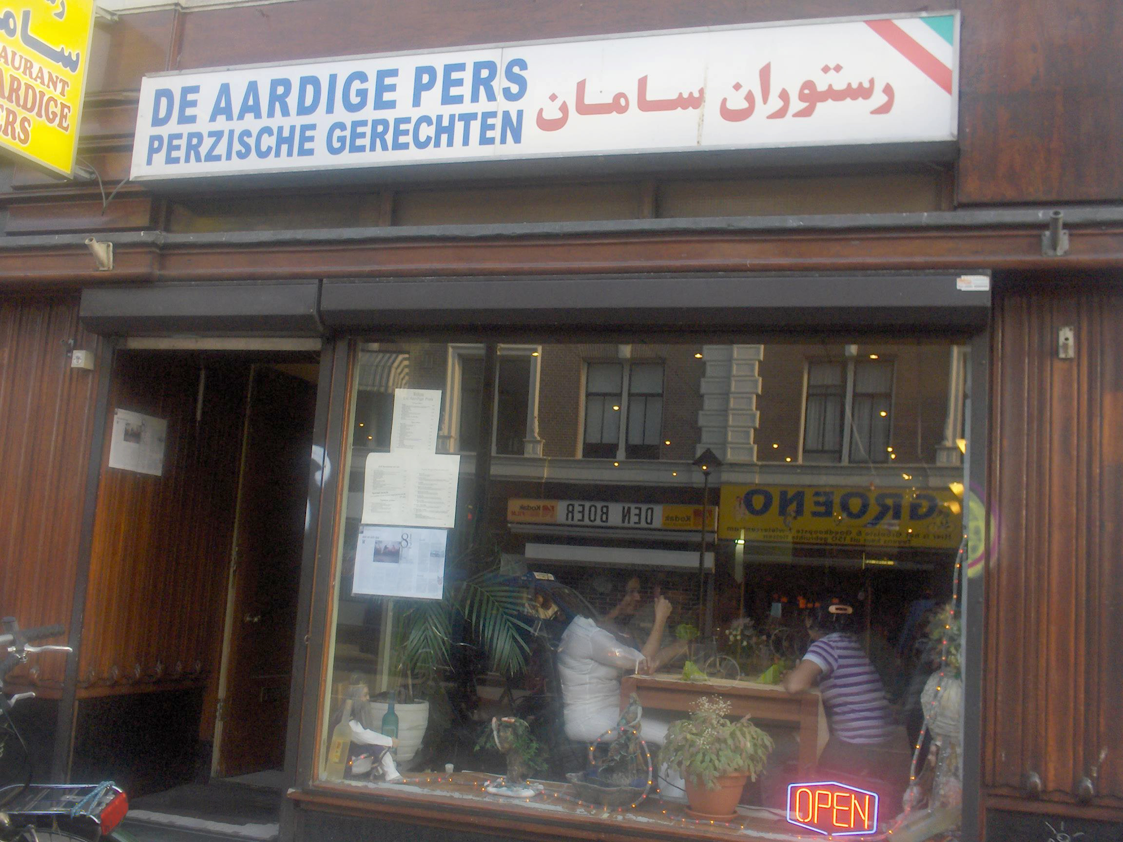 A Persian Resraurant in Amsterdam, 2006, Photo by Pejman Akbarzadeh